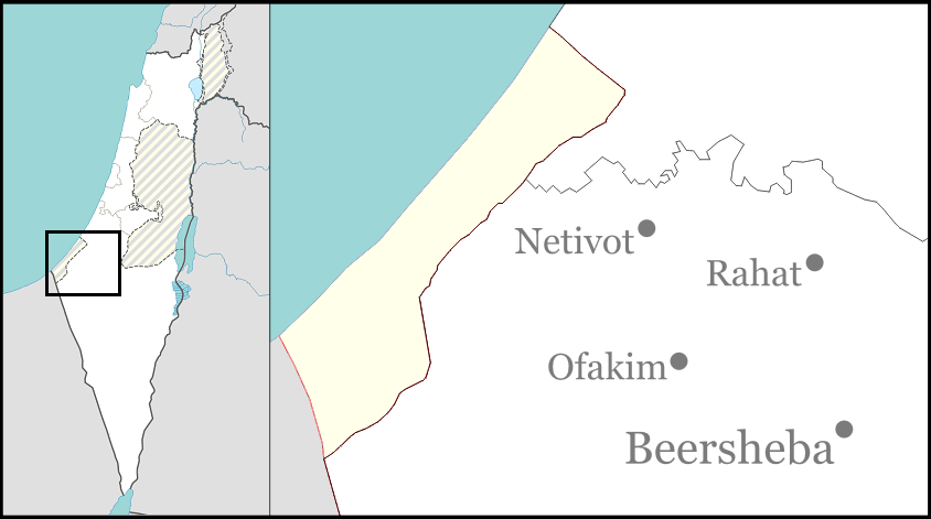 Northwestern Negev/Otef Aza region for Israeli location maps